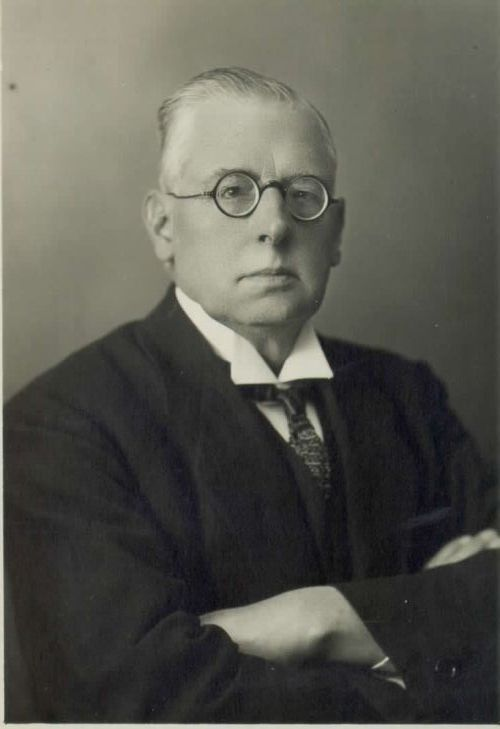 Ivan Šušteršič (1863-1925)